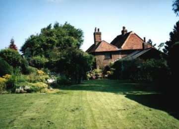 A summer image of the Dial House in southwest Essex, England